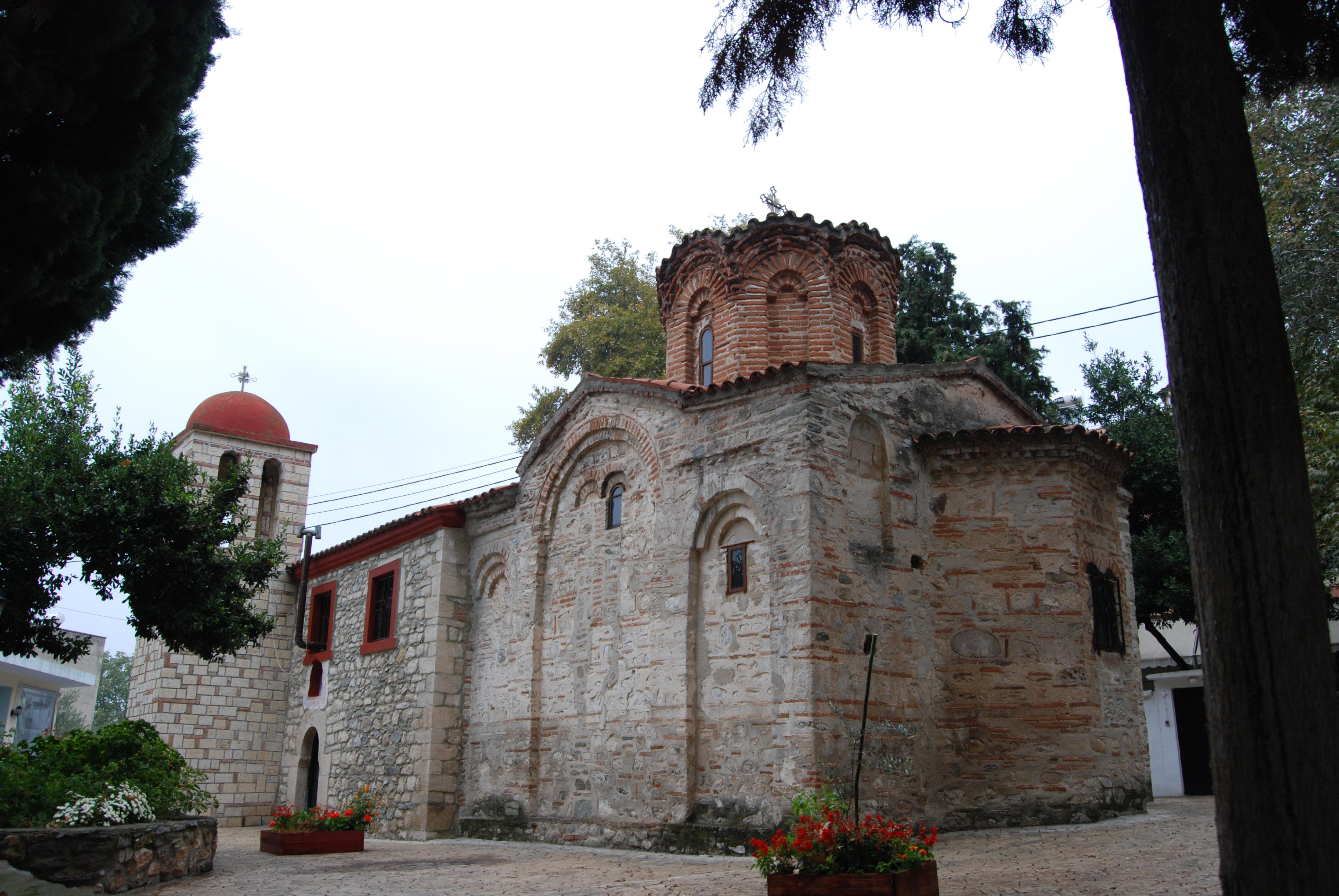 Church of Eleonas/Dutlija, Greece.